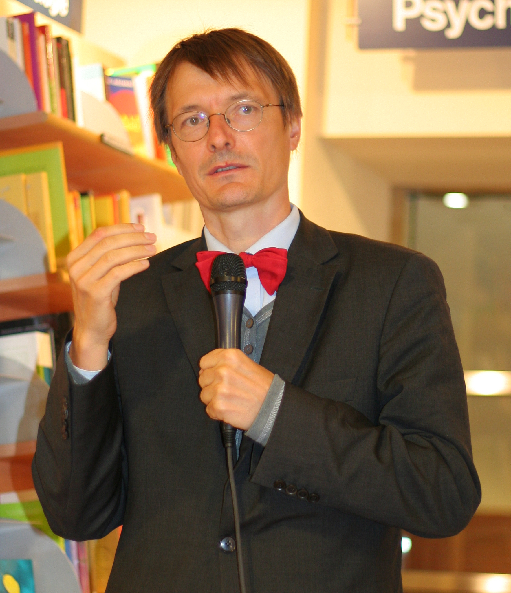 Karl Lauterbach, German politician (SPD)